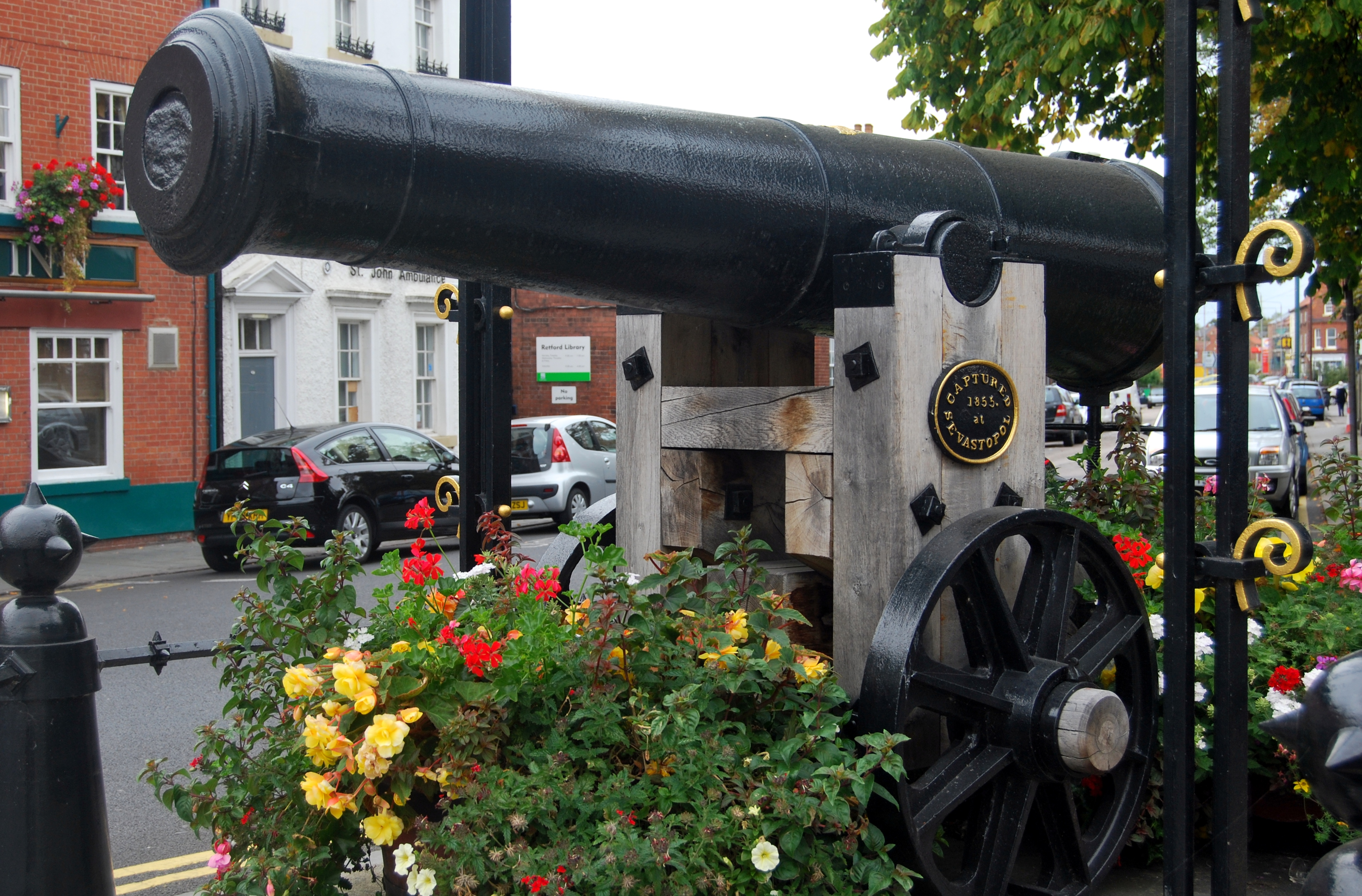 Canon captured from the Russians and brought back from Sevastopol to Retford.